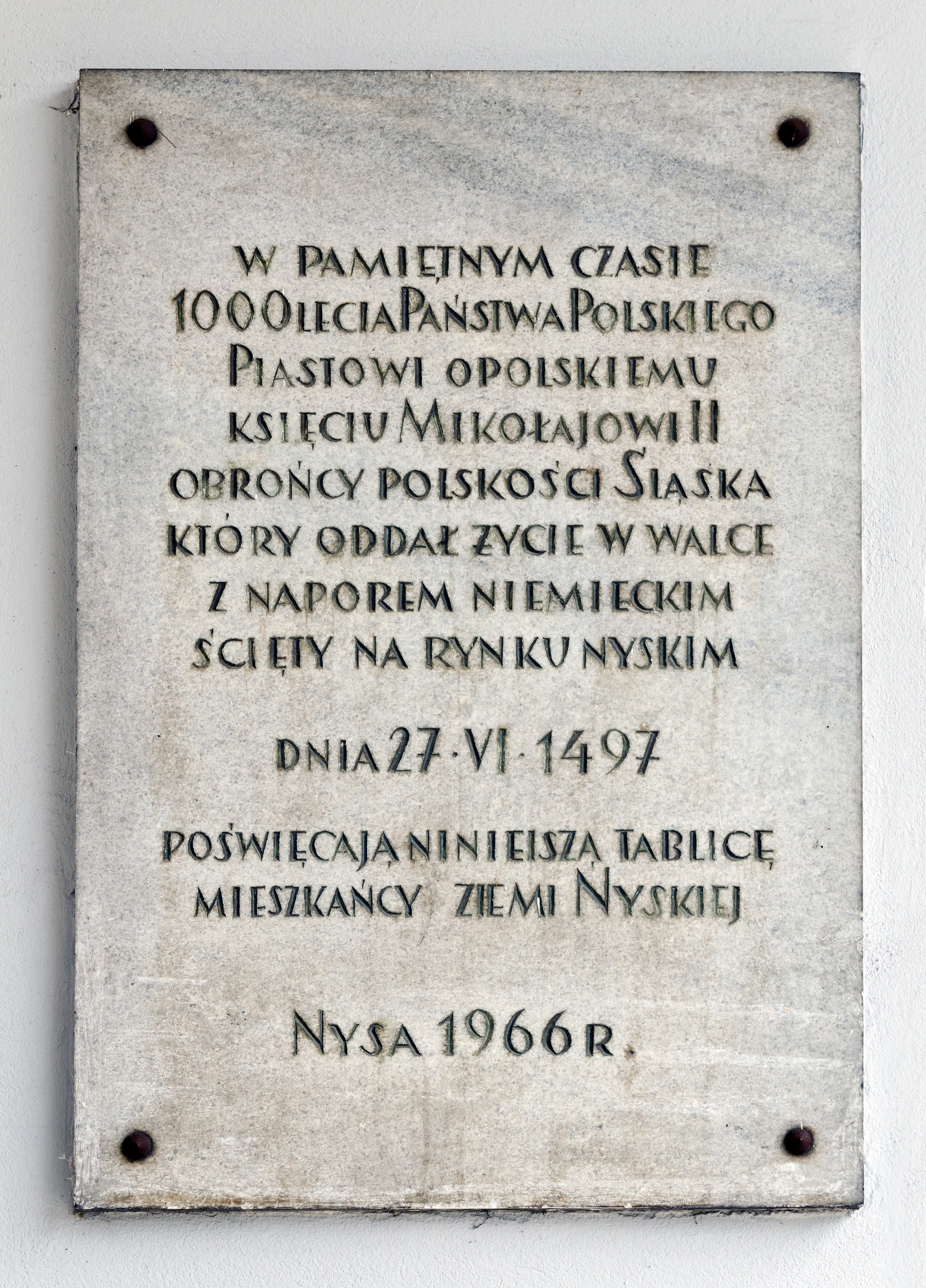 City Scales House in Nysa, Nicholas II of Niemodlin plague